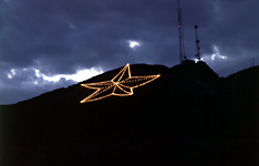 Star on the mountain built in 1940 in El Paso